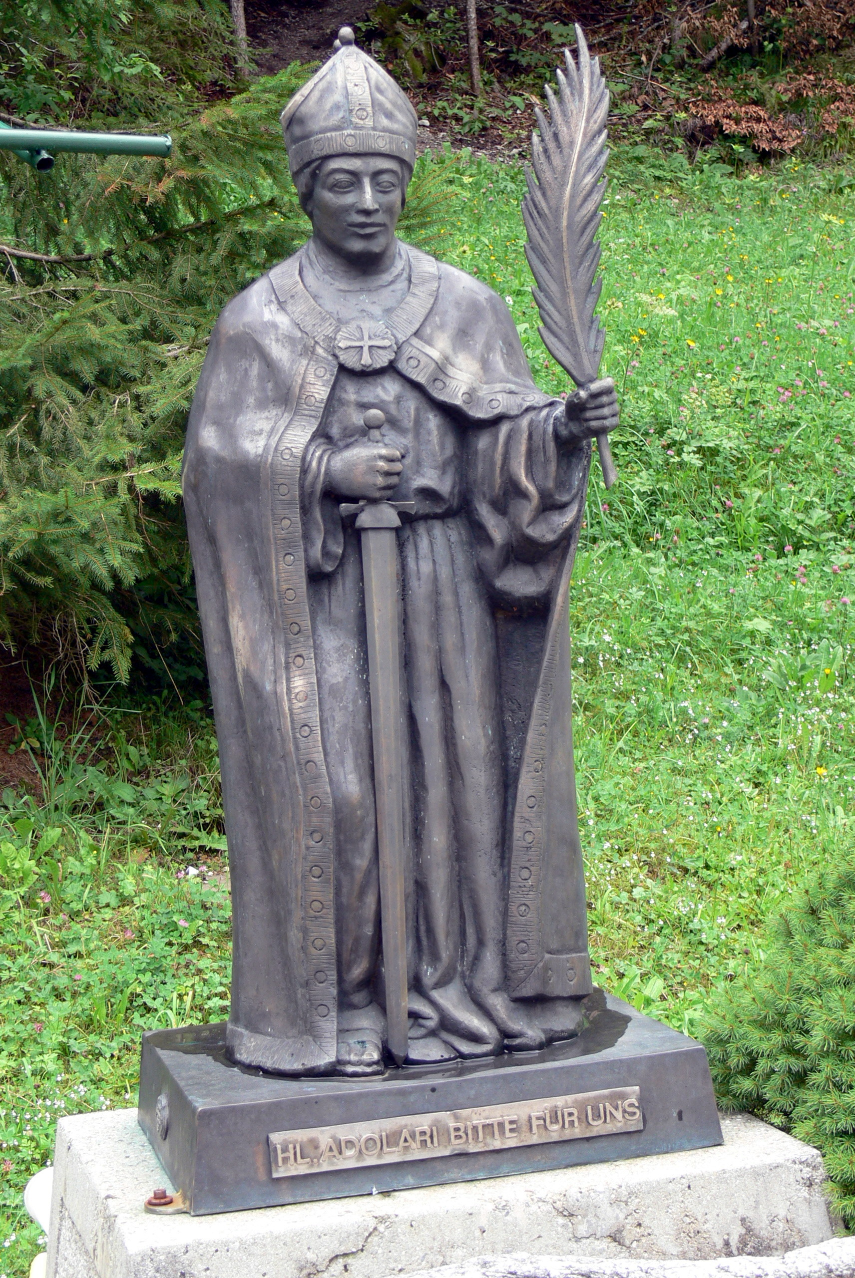 Saint Adolar church ( Tyrol ). Fountain with statue ( 1999 ) of Saint Adolar, created by Hans Peter Rainer.